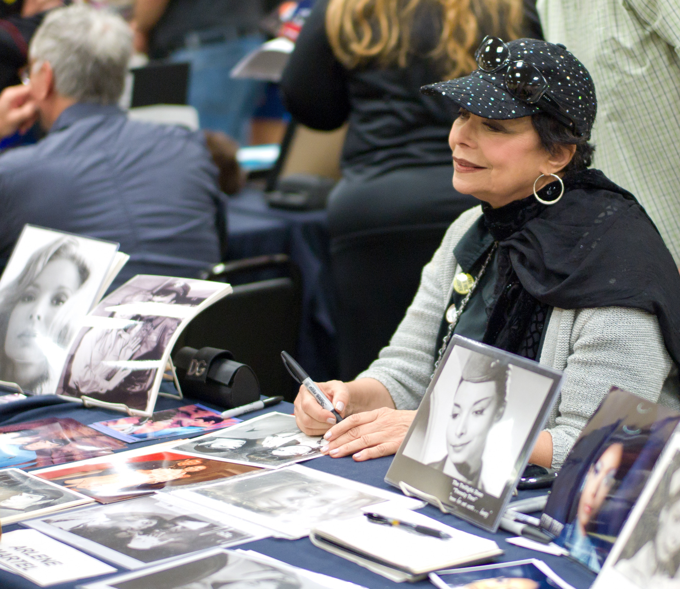 American actress Arlene Martel looks out over photos of her youth in various roles at 2011 Chicago Star Trek convention.